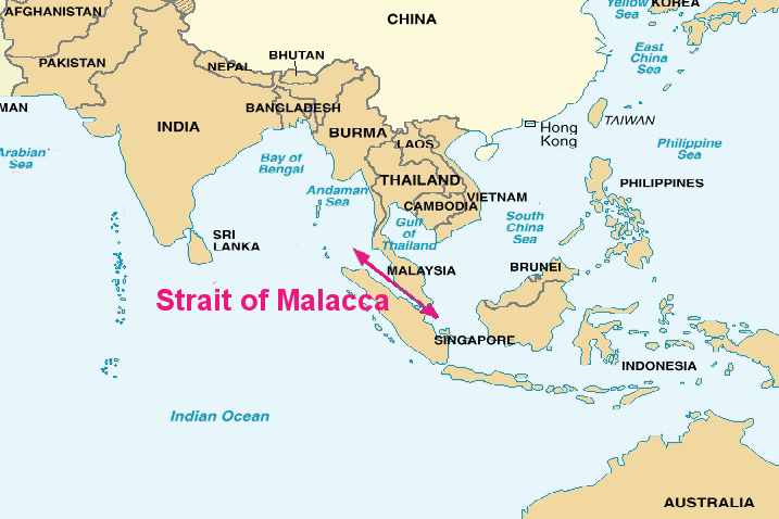 Map of the Strait of malacca, from a U.S. Department of Defense report.